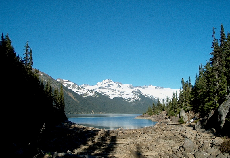 Picture of Mount Garibaldi / Garibaldi National Park, British Coloblia, Canada